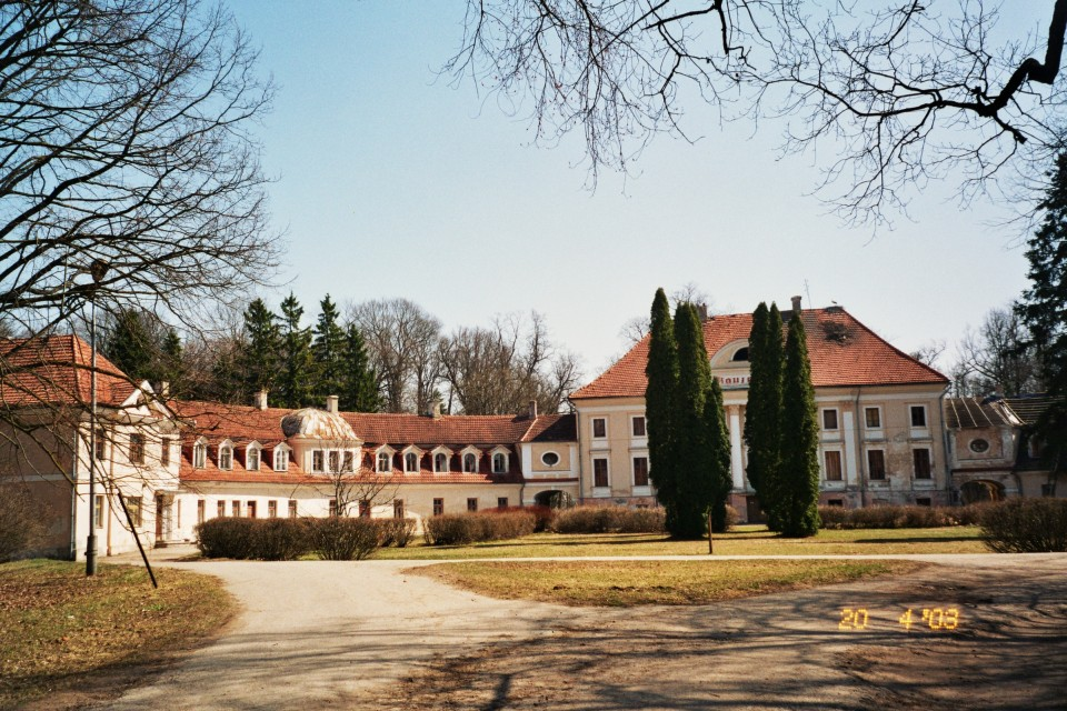 Kaucminde Manor